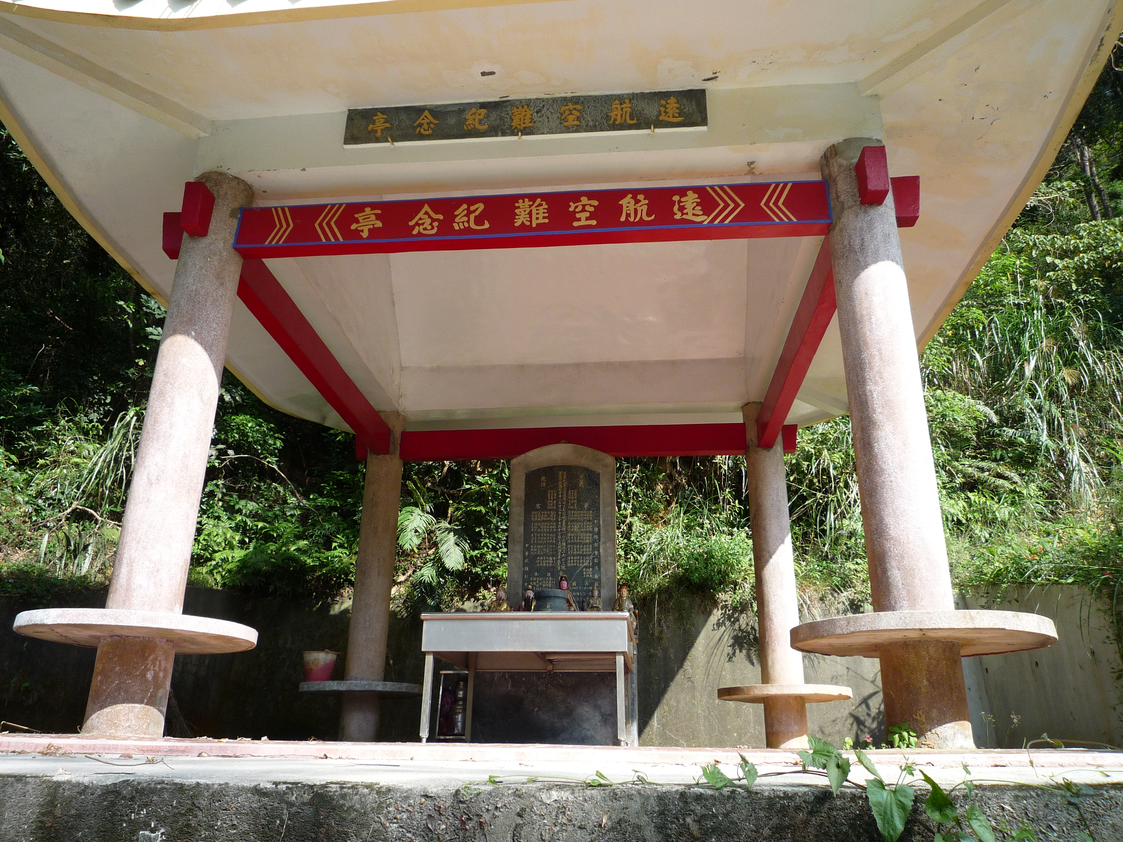 The cenotaph of Far Eastern Air Transport Flight 103 Accident, locate at border between Sanyi and Yuanli in Miaoli county, Taiwan. This cenotaph was established by Miaoli branch of Buddhism Association ROC.